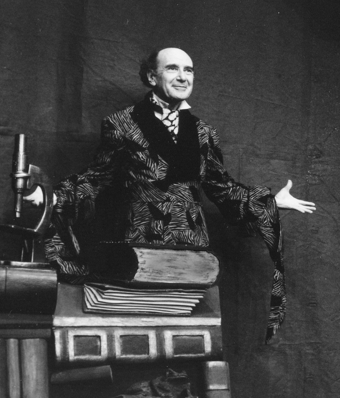 portrait of French actor Robert Marcy